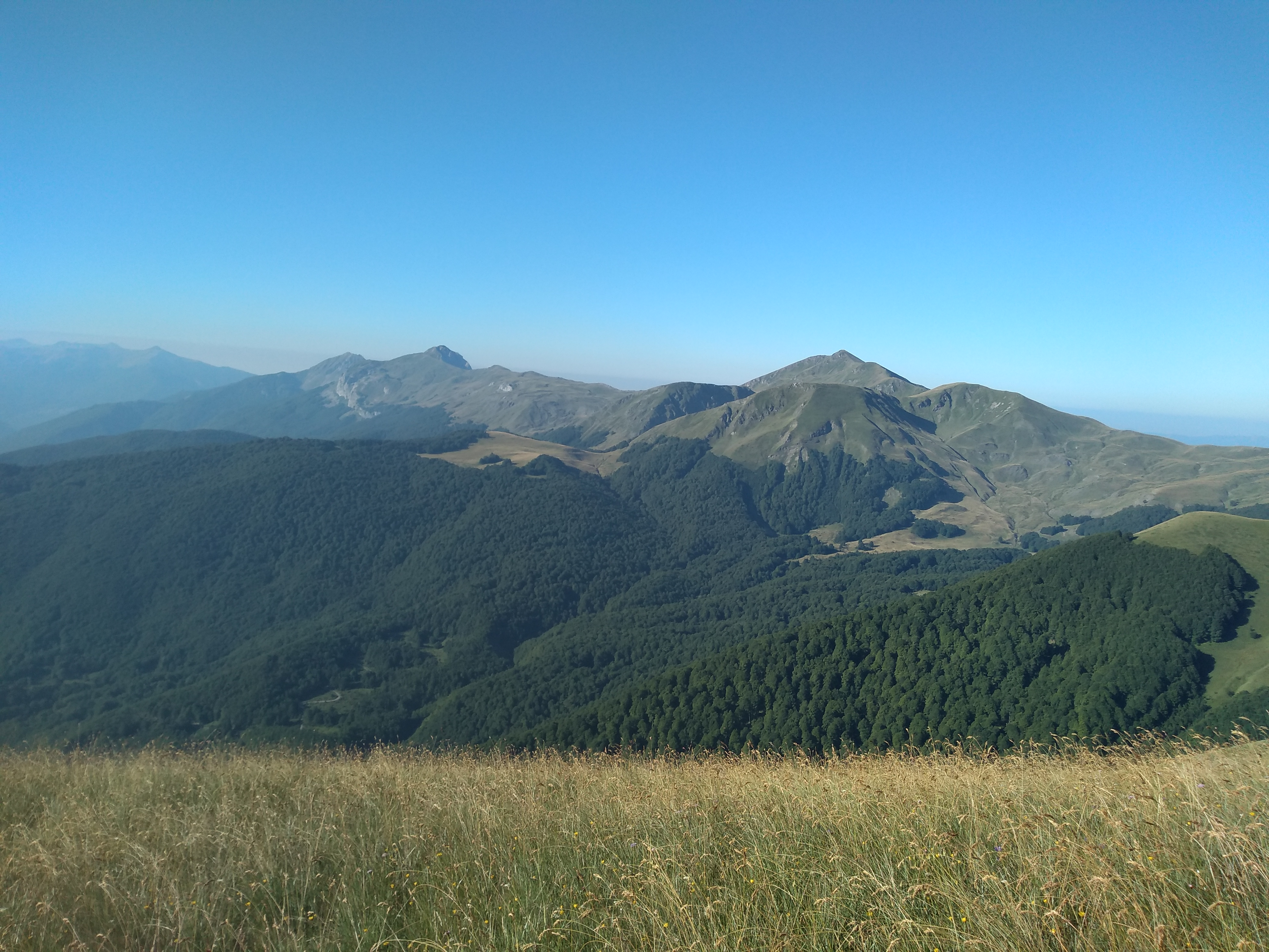 Desat mountain, Macedonia